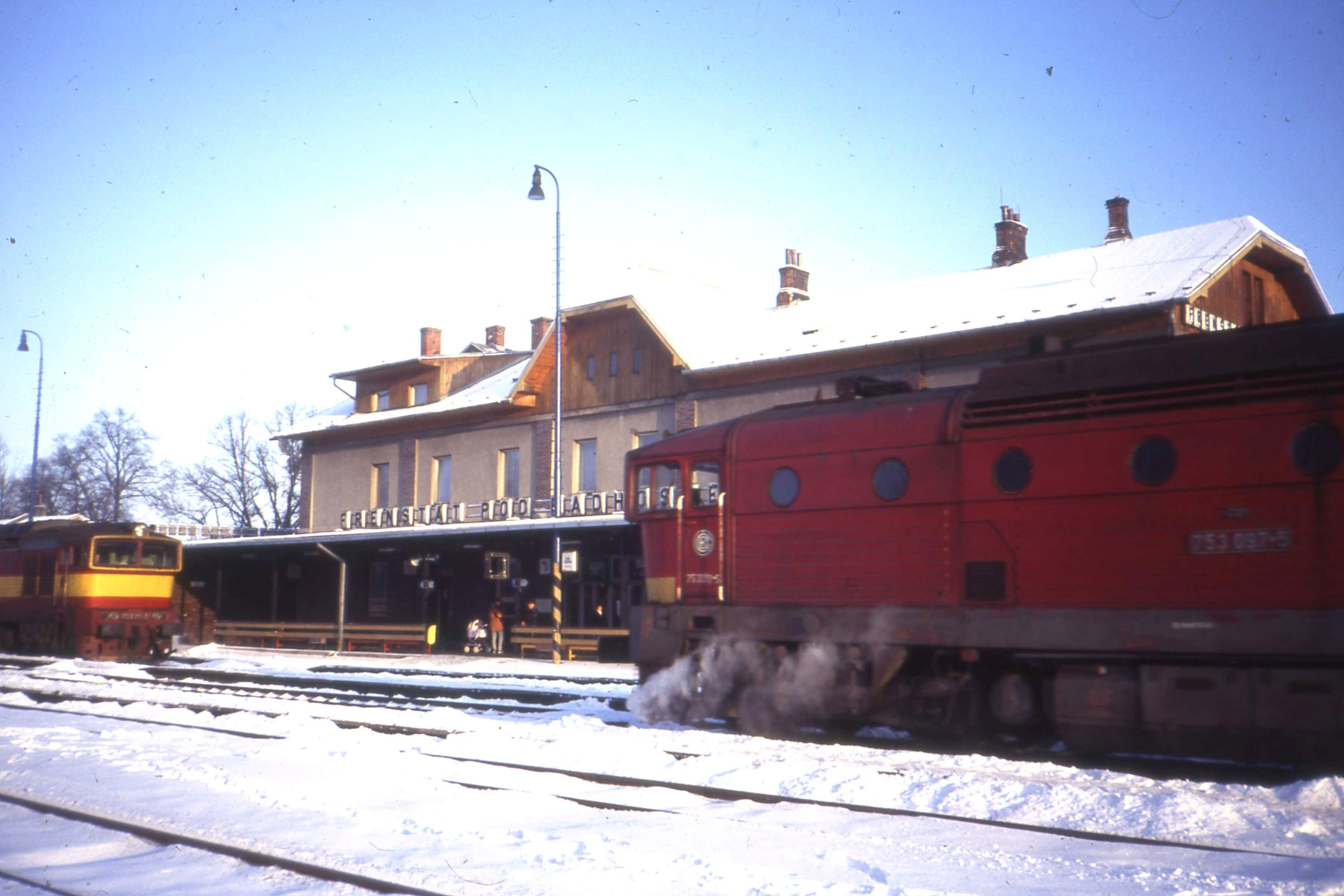 ČSD 753.211 (left) and 753.097 diesel locomotives in Frenštát pod Radhoštěm, former Czechoslovakia